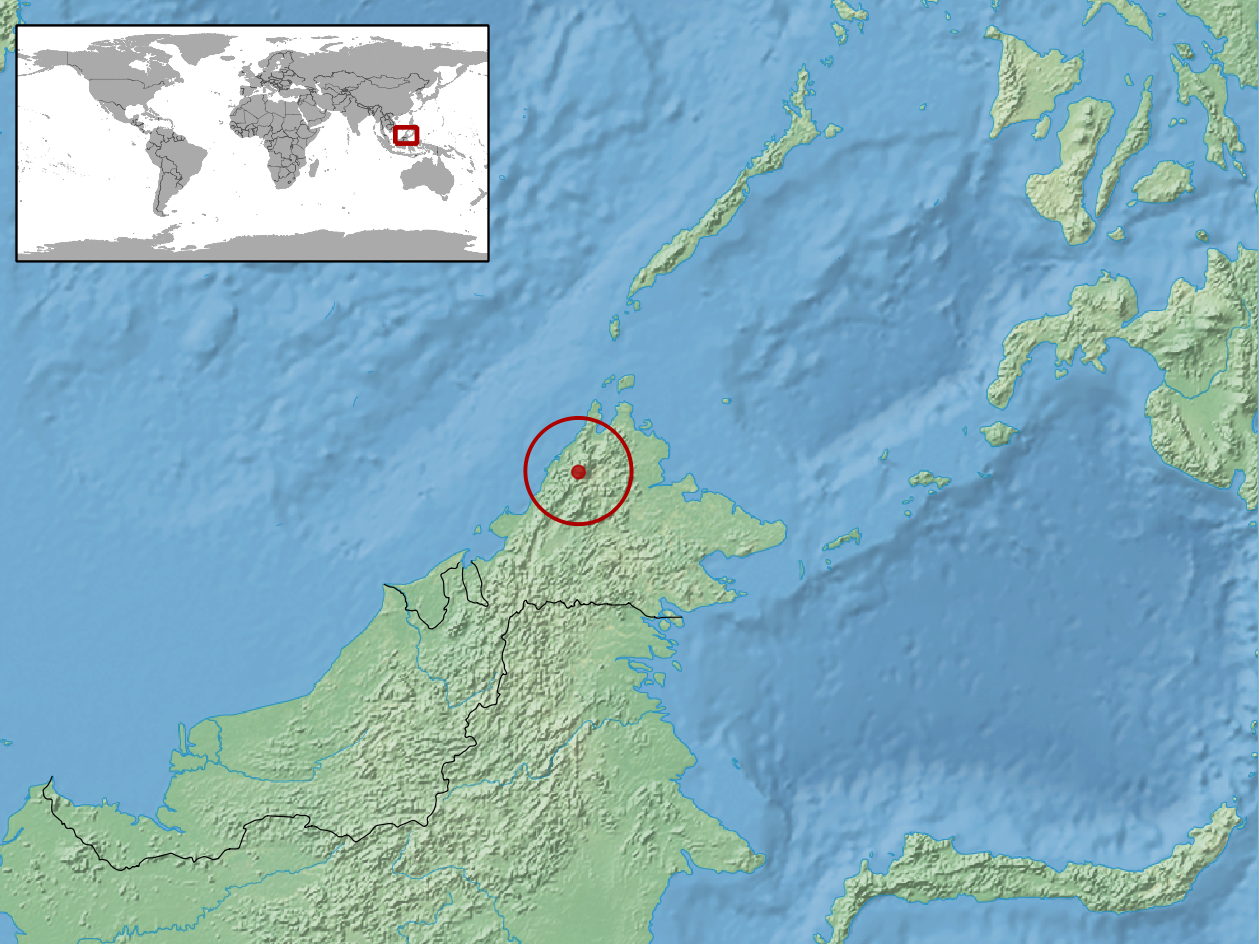 geographic distribution of Calamaria schmidti (Native: Malaysia (Sabah))